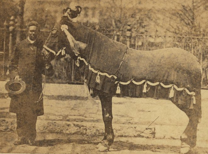 Photograph shows, an African American man, identified in reference sources as Rev. Henry Brown, with Abraham Lincoln's horse on the day of Lincoln's funeral.